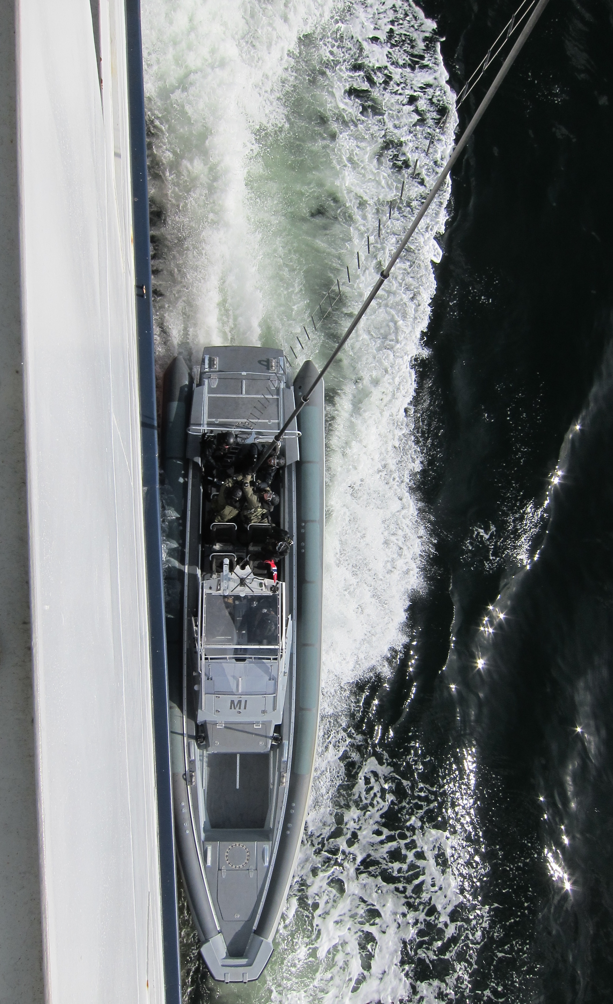 Forsvarets Spesialkommando (FSK, en. Armed Forces' Special Command) training in the Oslofjord on entering a passenger ferry with telescopic ladder.